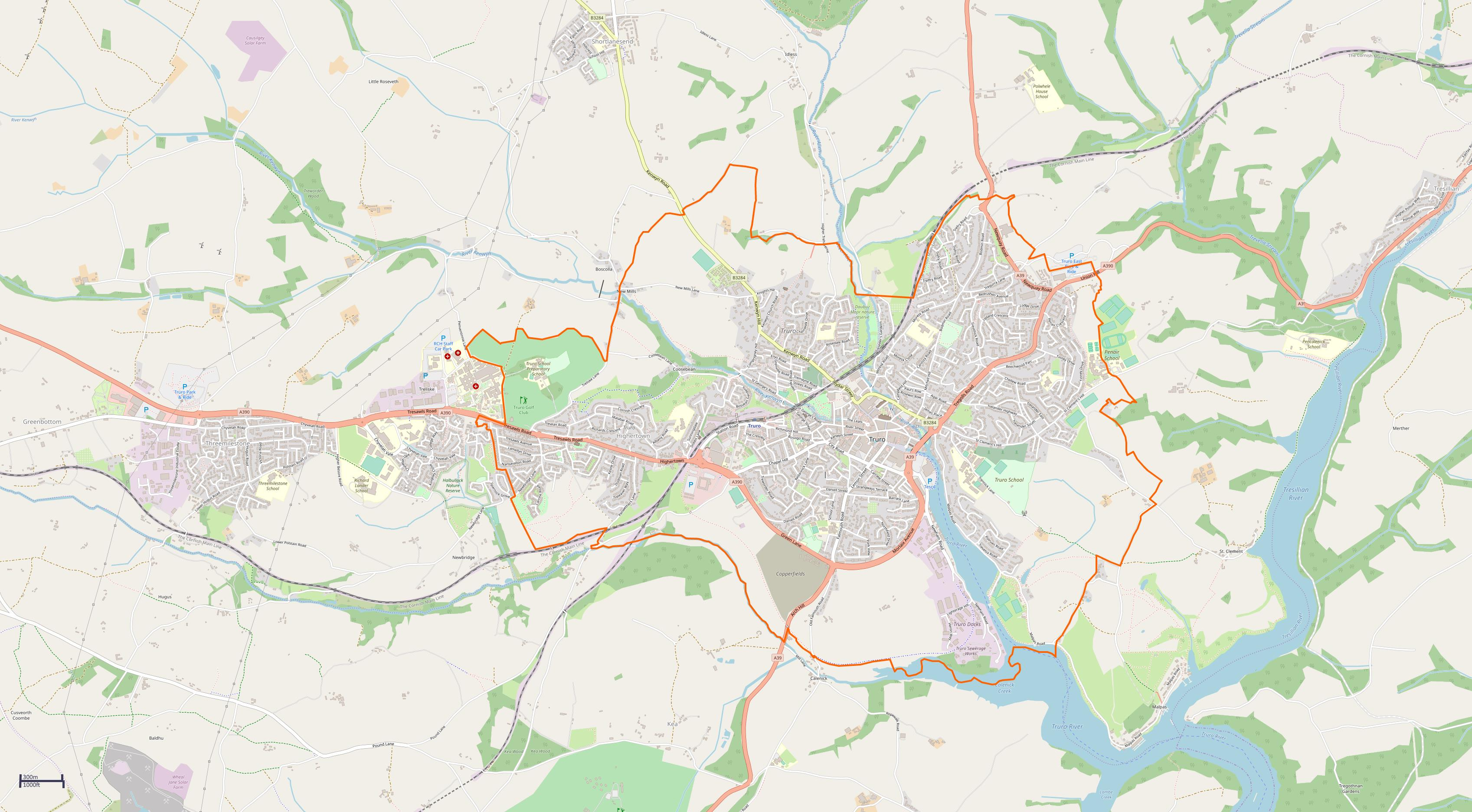 Map of Truro